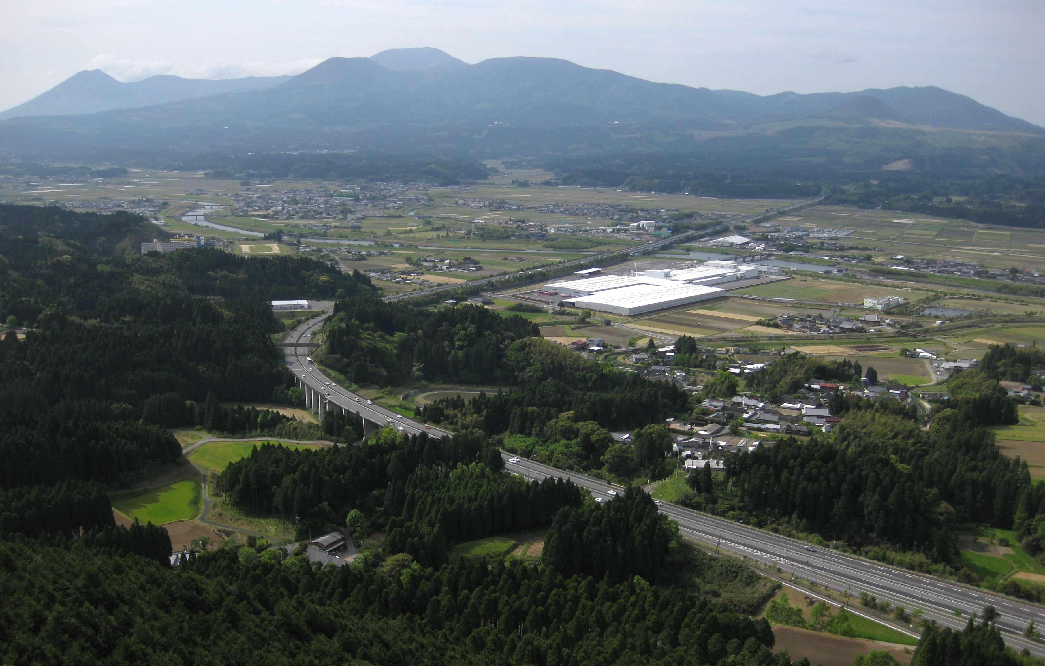 Kakutou Basin and Kirishima Mountains in Kyūshū, Japan. Taken from Kirino-ohashi Bridge on Route 221.